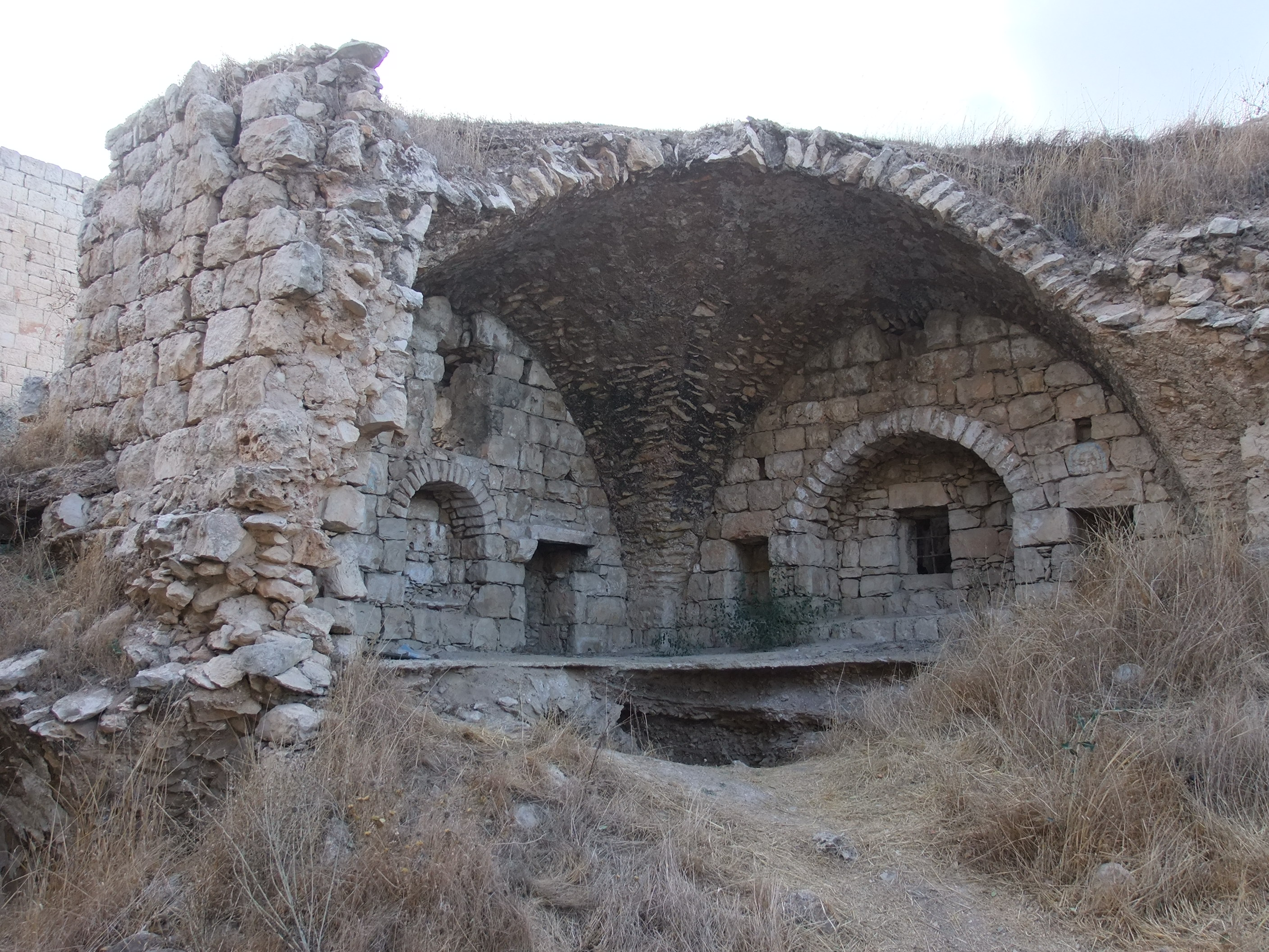 The abandoned Arab village Lifta at the entrance to Jerusalem